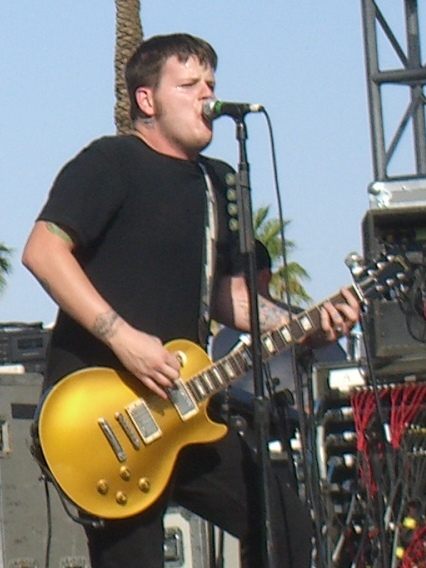 Against Me! guitarist James Bowman performing at the 2007 Coachella Valley Music and Arts Festival.